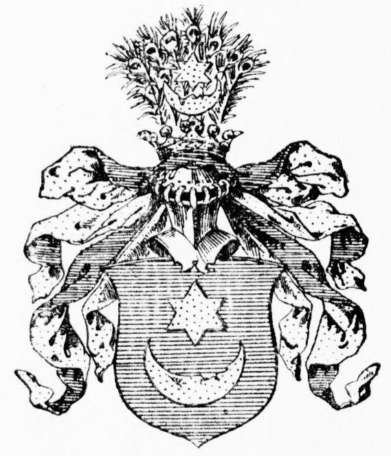 Coat of Arms Leliwa in Księga herbowa rodów polskich by J.K. Ostrowski